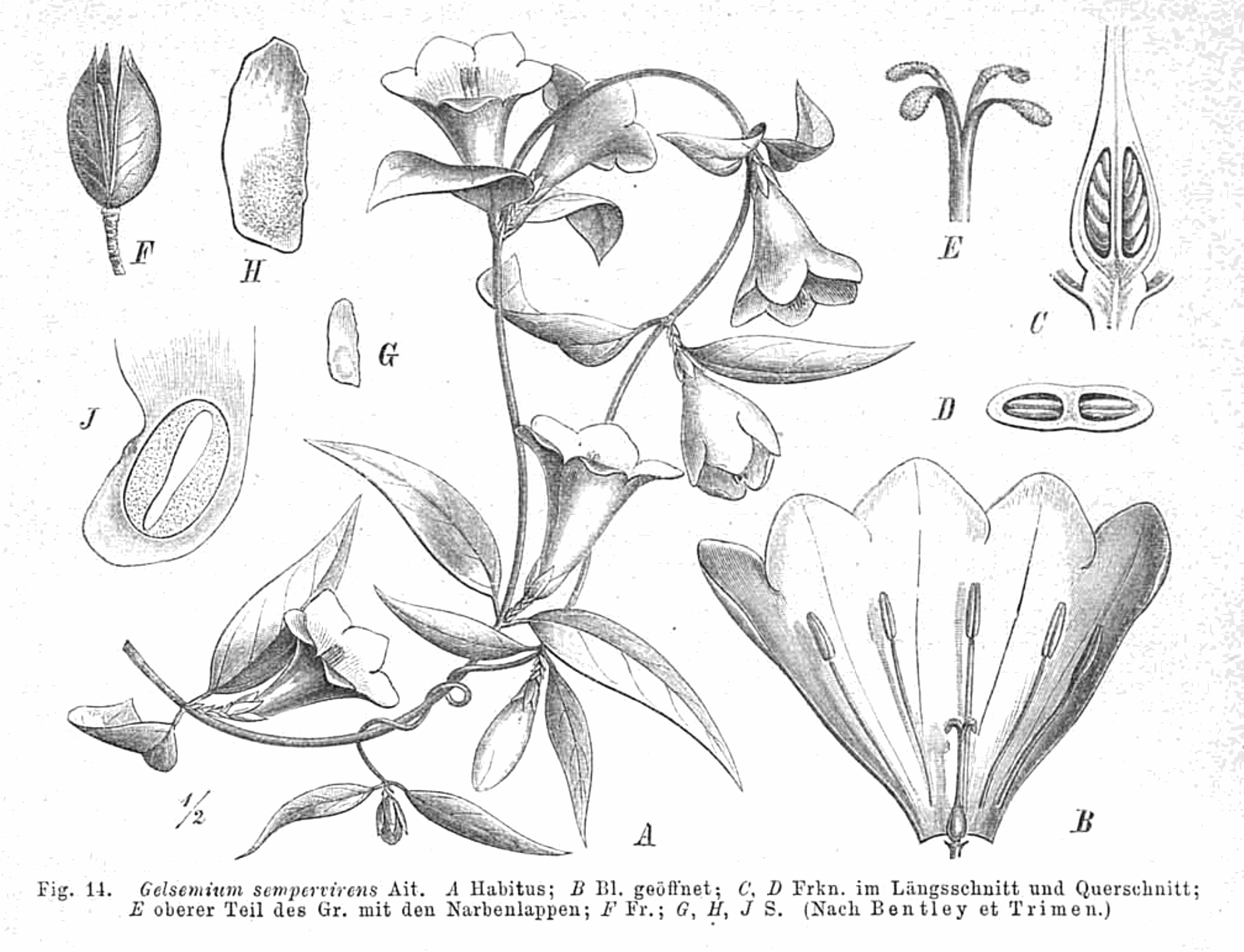 Gelsemium sempervirens (L.) Pers. A. Habitus. B. Flower, opened. C/D. Ovary, long. cut and cross sec. E. Upper part of stylus w/ stigmata. F. Fruit. G/H/J. Seeds.